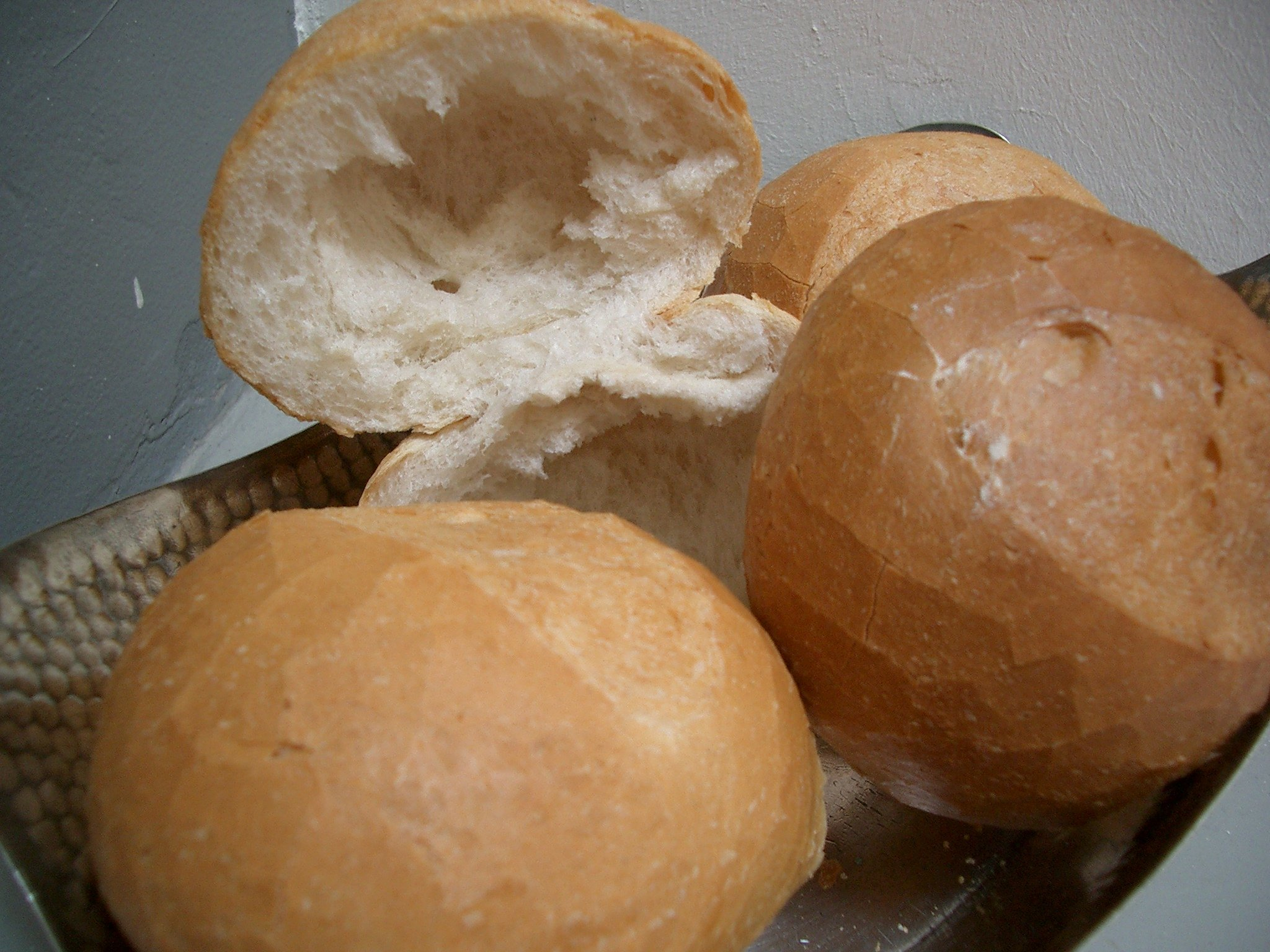 Little Brussels' breads